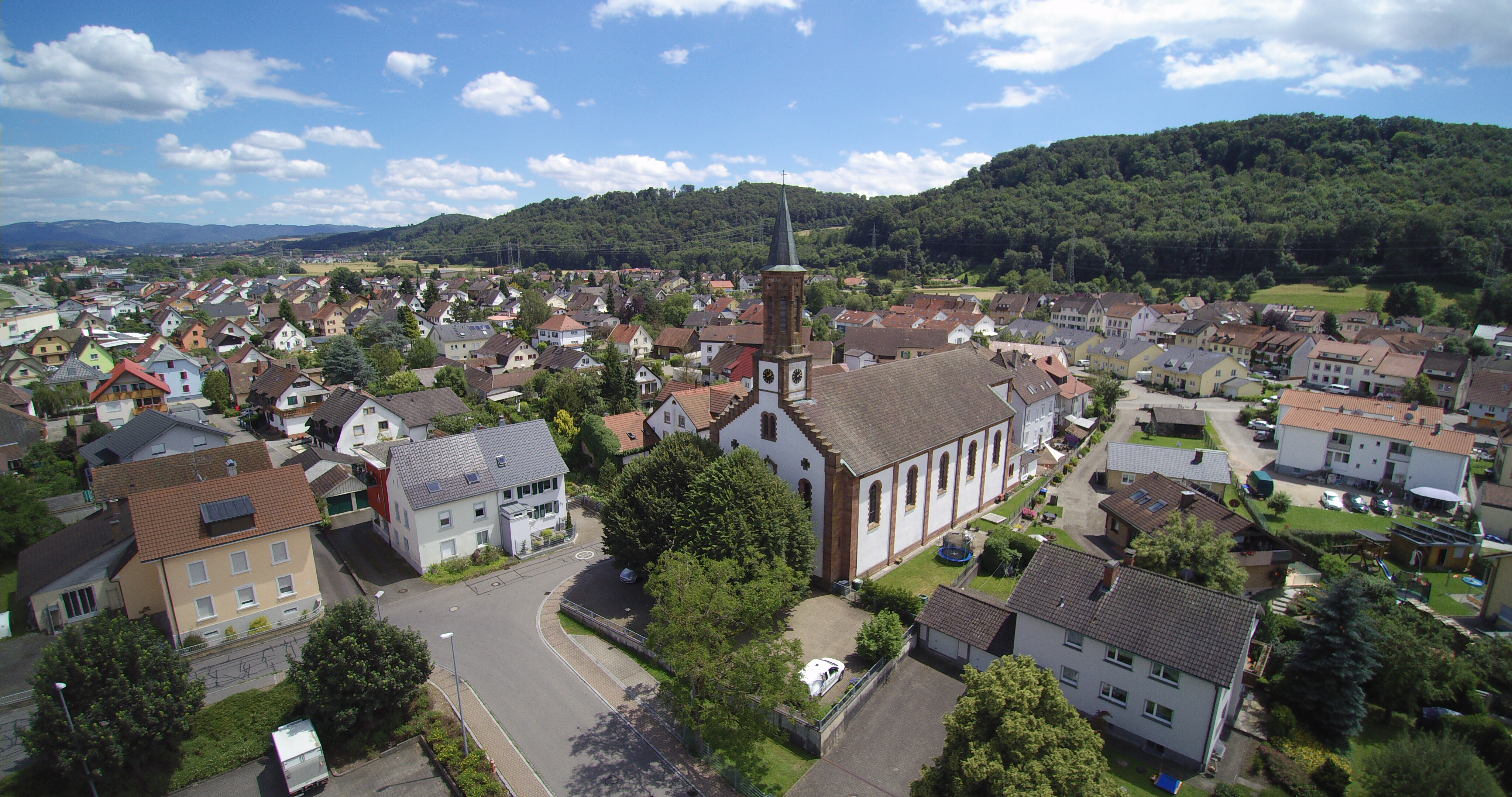 Aerial Viea of the church Immaculate Conception in Höllstein in southern Baden-Württemberg, Germany.